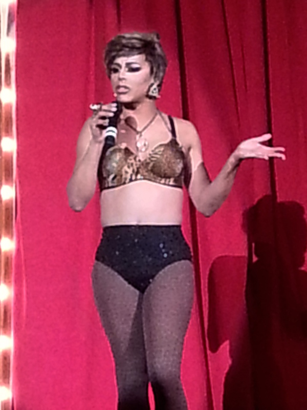 Laquifa performing a stand-up act at the Drag Queens of Comedy show at the Castro Theatre in San Francisco, California, United States.